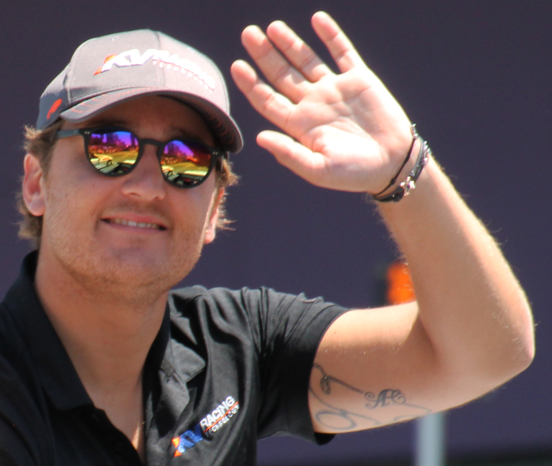 Stefano Coletti at the 2015 500 Festival Parade in Indianapolis, Indiana